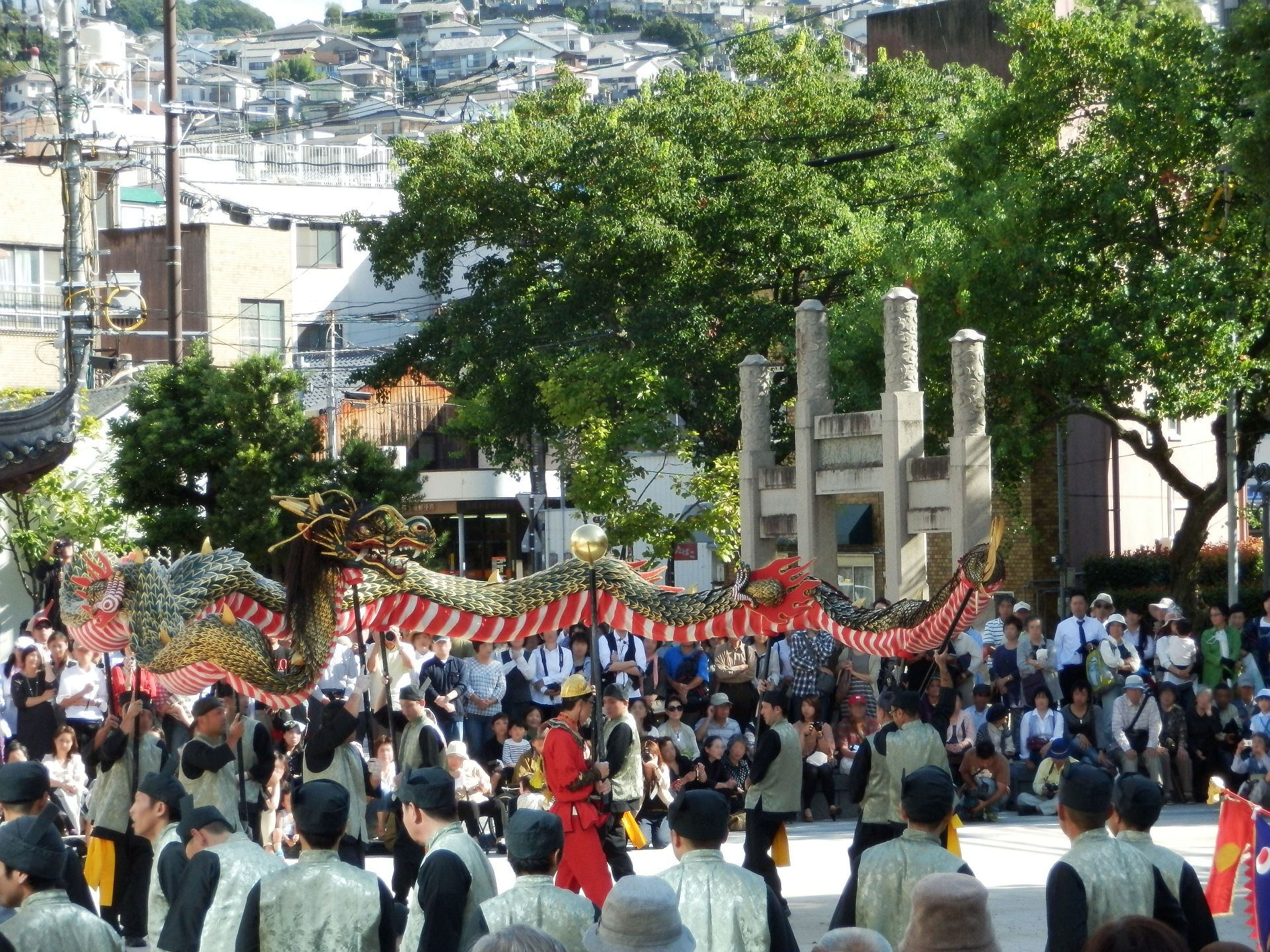 Ja-odori (Dragon dance) of Kagomachi, in Nagasaki Kunchi